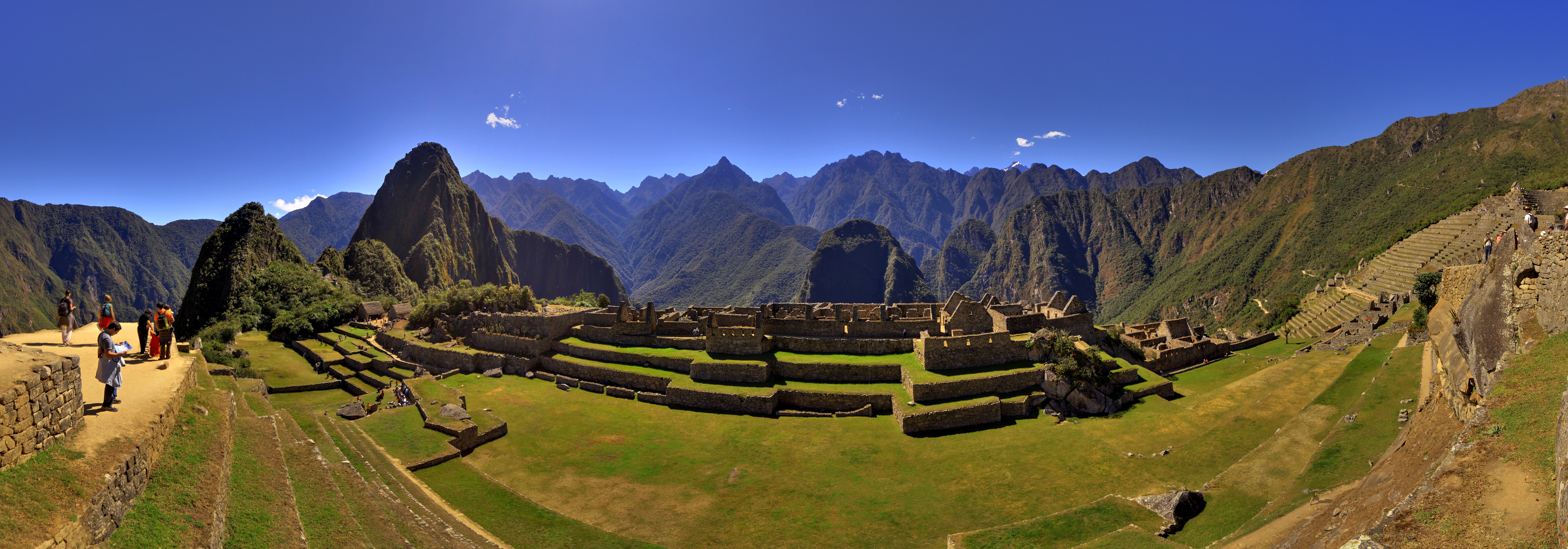 Please, have this description accessible to all by translating it in different languages.